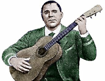 Juan Breva (real name: Antonio Ortega Escalona; 1844 - 1918) - famous Spanish flamenco singer and guitarist from Malaga. He was responsible for popularizing the malagueña, a lighter style of flamenco that was to take the café cantante scene by storm.